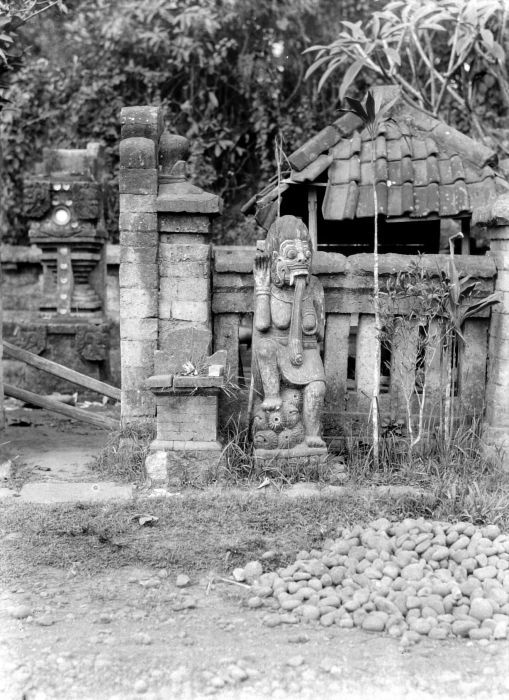 Sculpture at the entrance of a temple